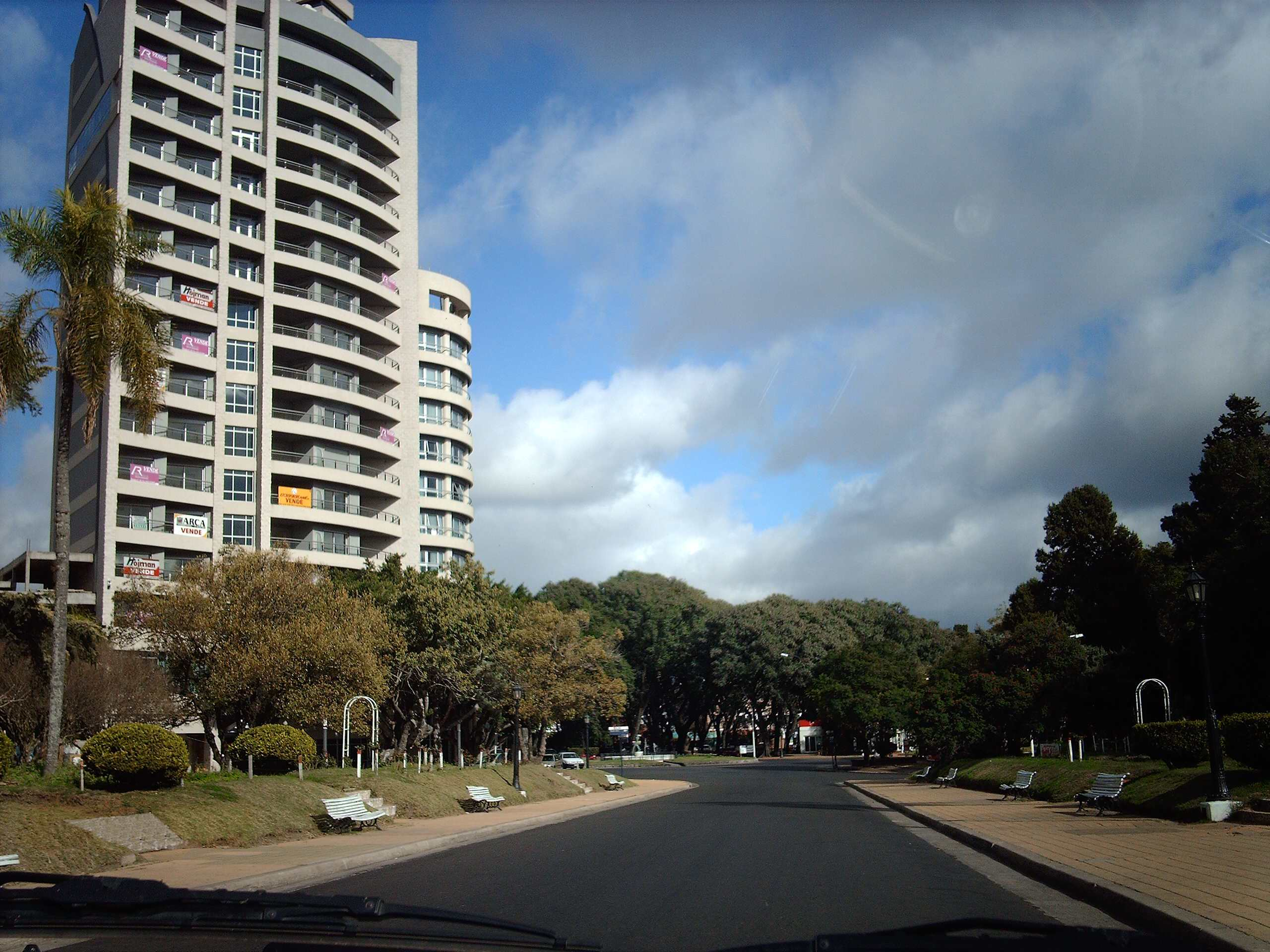 Hotel Maran Suites and Towers, Paraná, Argentina.